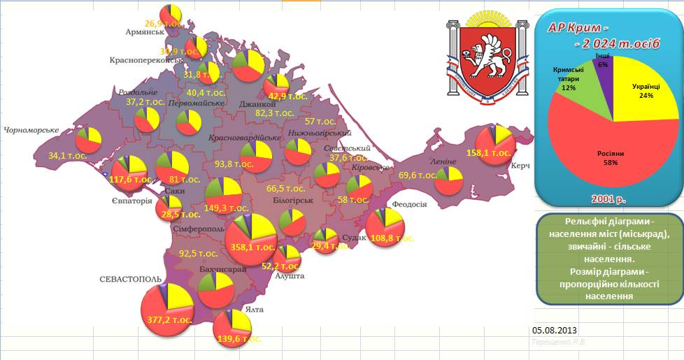 National composition of population of Crimea in districts and cities (2001)